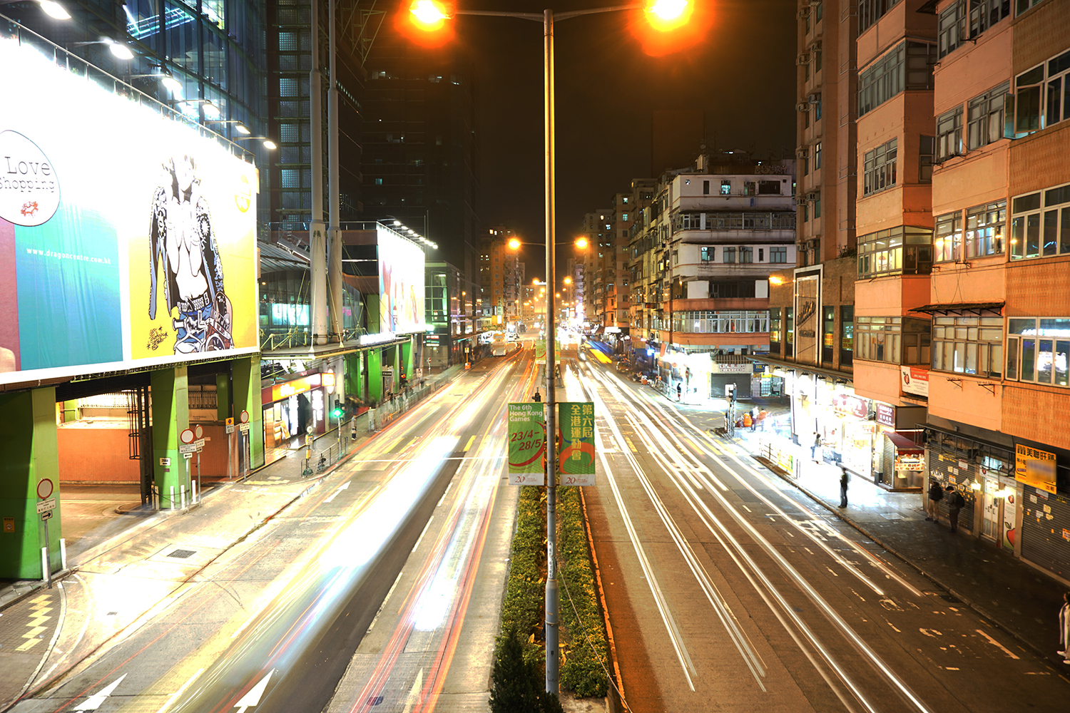 Yen Chow Street in Sham Shui Po, Hong Kong.